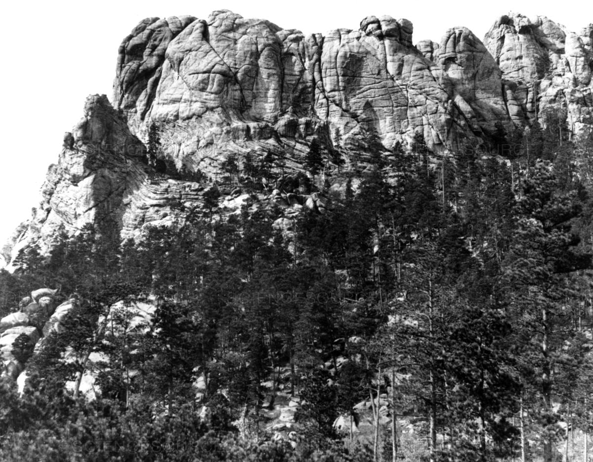 An image of Mount Rushmore — before construction began on the Mount Rushmore National Memorial.